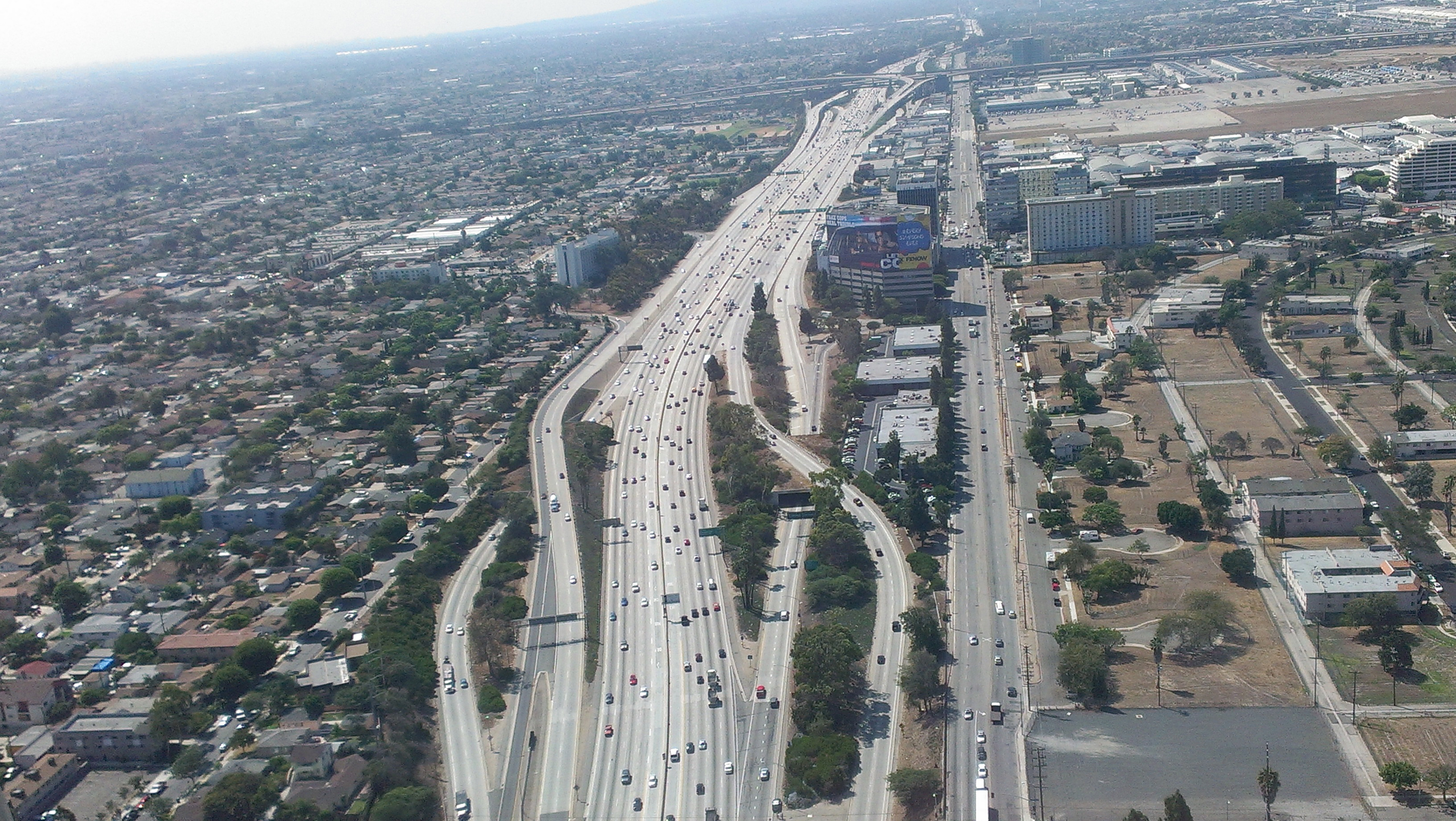 The 405−San Diego Freeway near LAX in Westchester, Los Angeles.